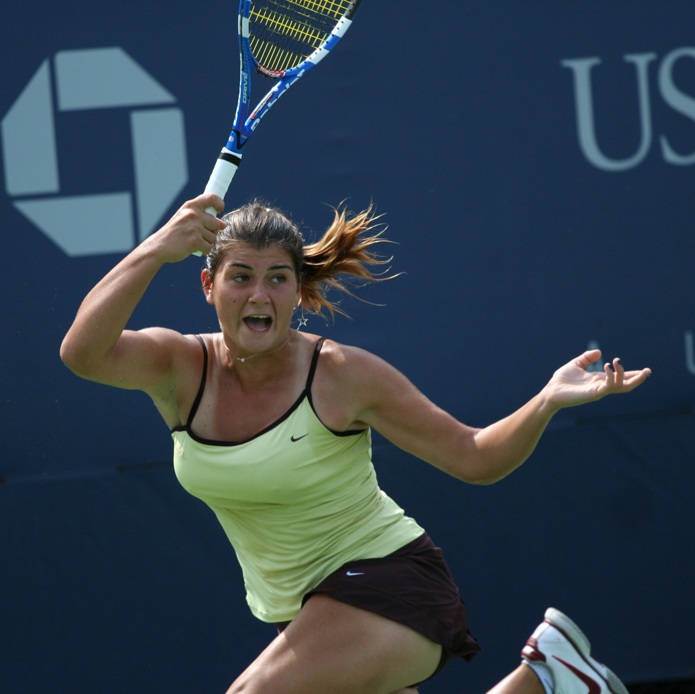 Başak Eraydın at the 2011 US Open